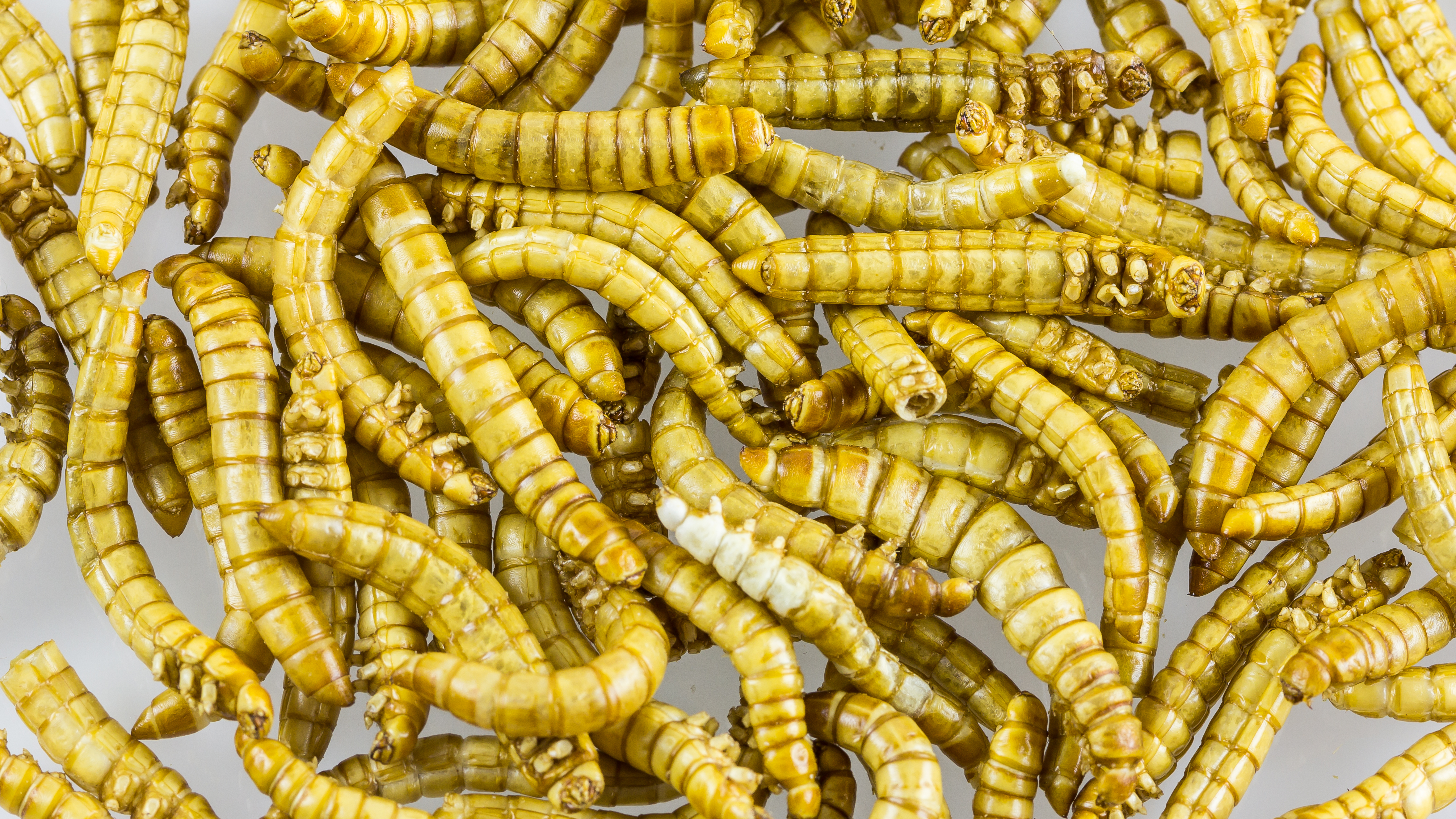 Mealworms as food